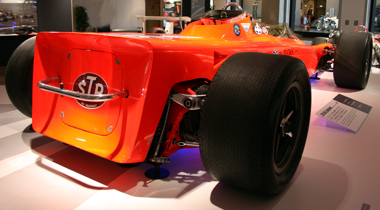 Lotus 56 STP Oil Treatment (Graham Hill) in 1968, from Indianapolis Motor Speedway Hall of Fame Museum.